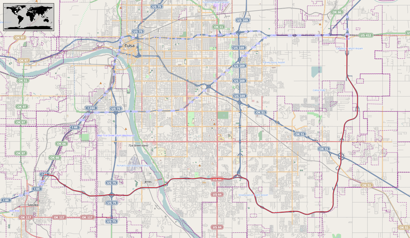 Map of the Creek Turnpike (appears in bright red) made from OpenStreetMap data, overlaid with KML from English Wikipedia in Marble.